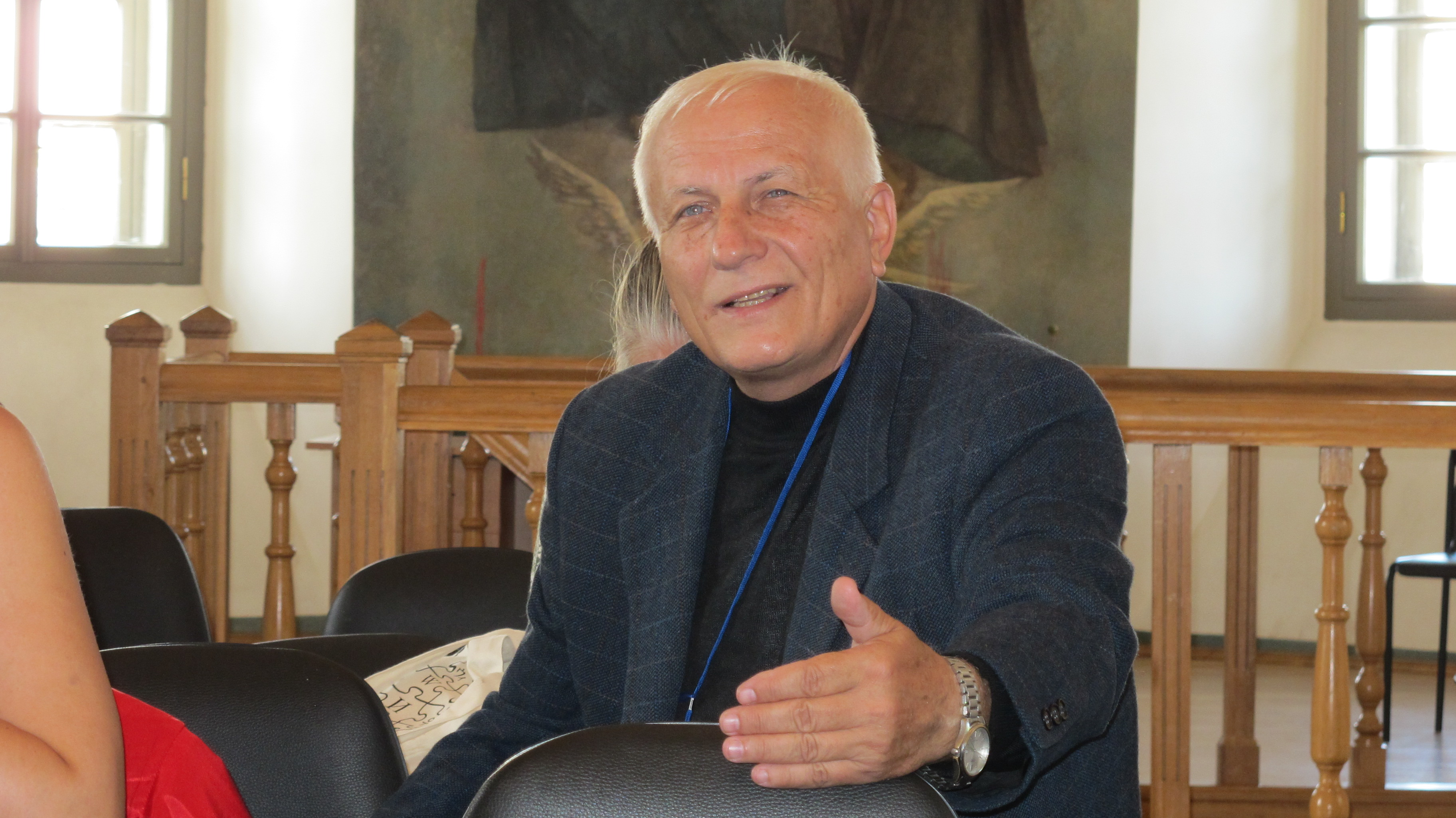 Second day of Ukranian Wiki-Conference 2016 in Kyiv.